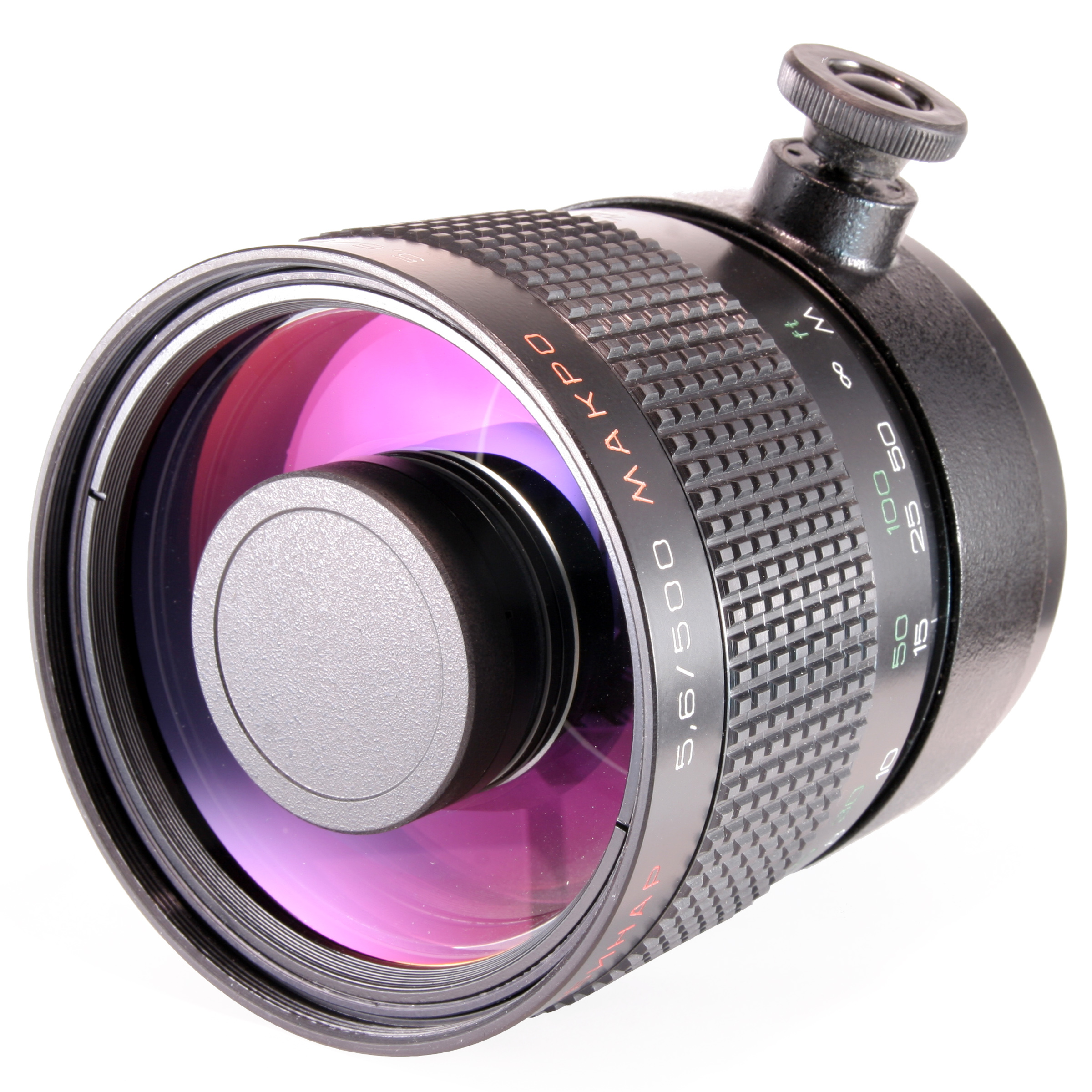 500 mm f 5.6 photographic catadioptric lens «Rubinar» from Russia. Image made with 36 mm focal length